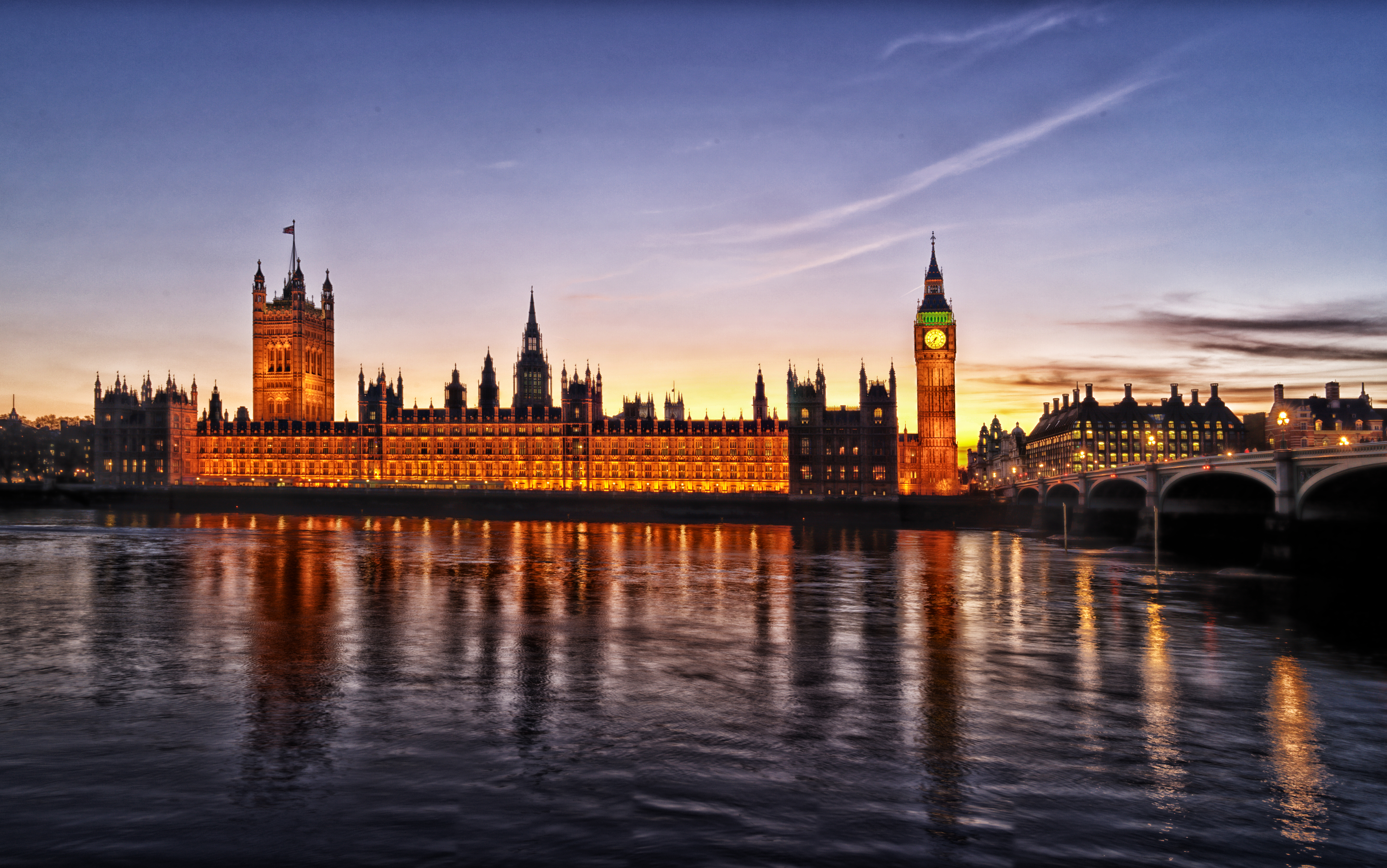 Westminster Palace london uk 2012 panorama dusk